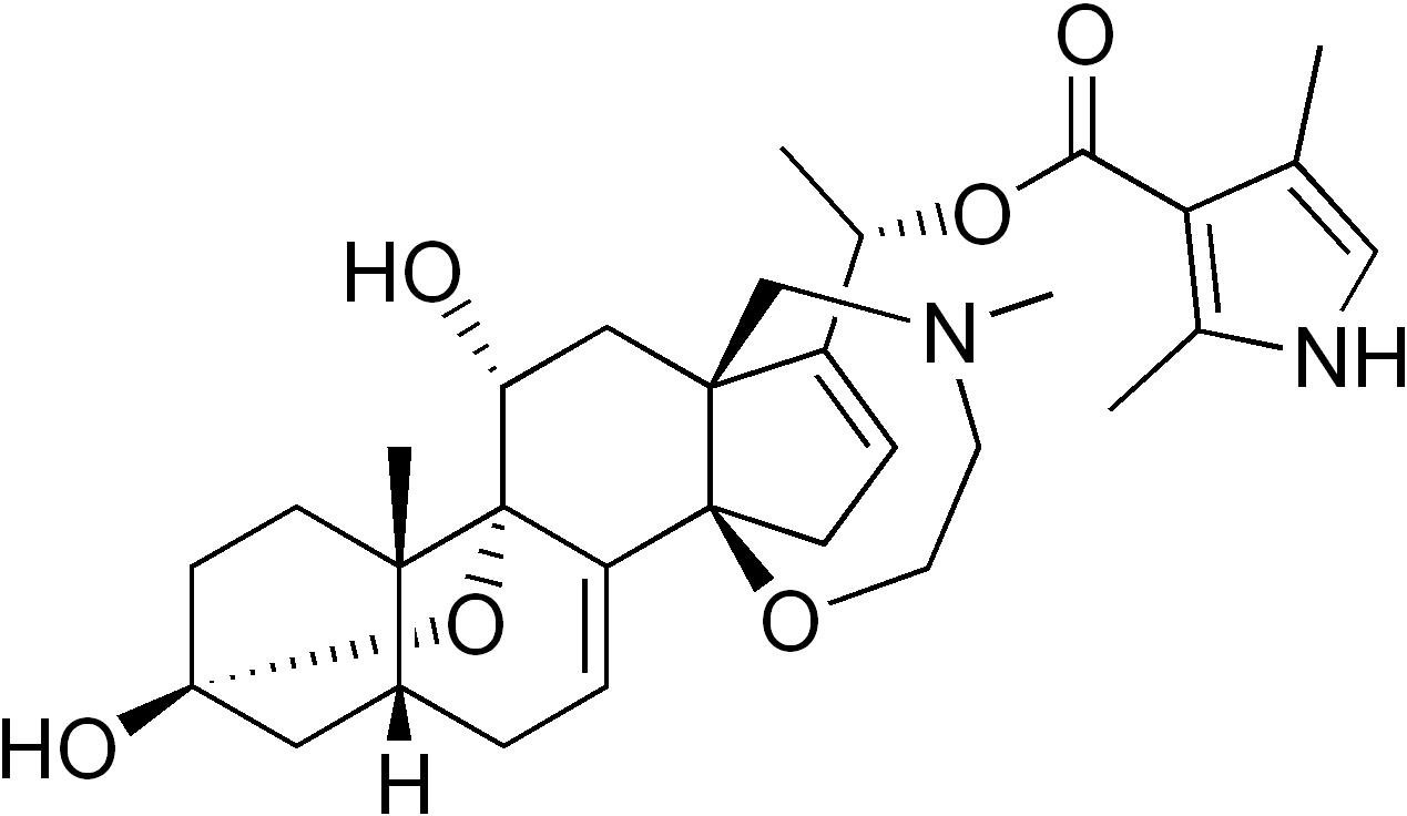 Chemical structure of batrachotoxin, a toxic steroidal alkaloid from poison dart frog.